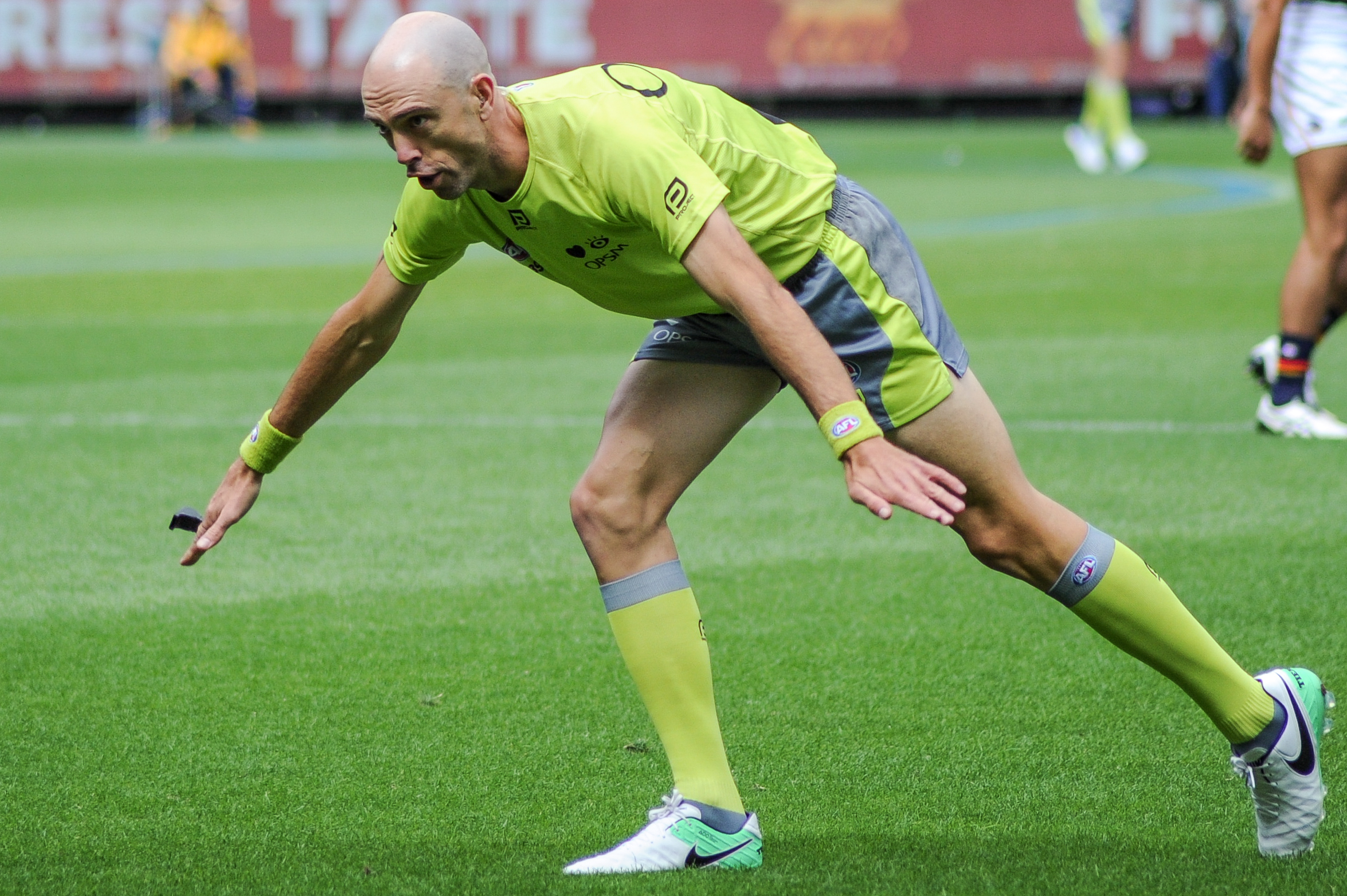 Matt Nicholls signalling a holding the ball decision during the AFL round two match between Hawthorn and Adelaide on 1 April 2017 at the Melbourne Cricket Ground in Melbourne, Victoria.